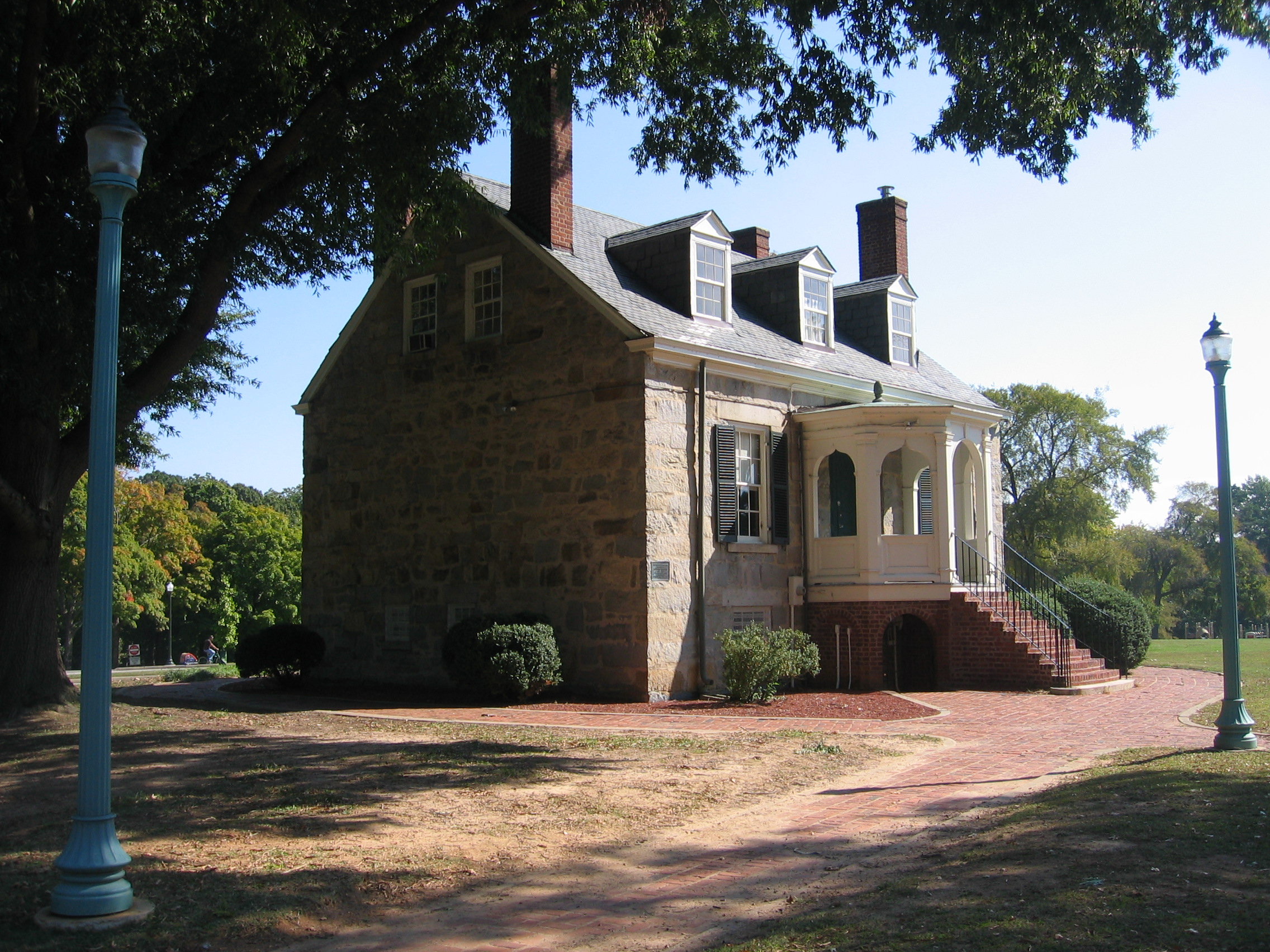 A view of 1836 Holden Rhodes House at the entrance to Forest Hill Park.